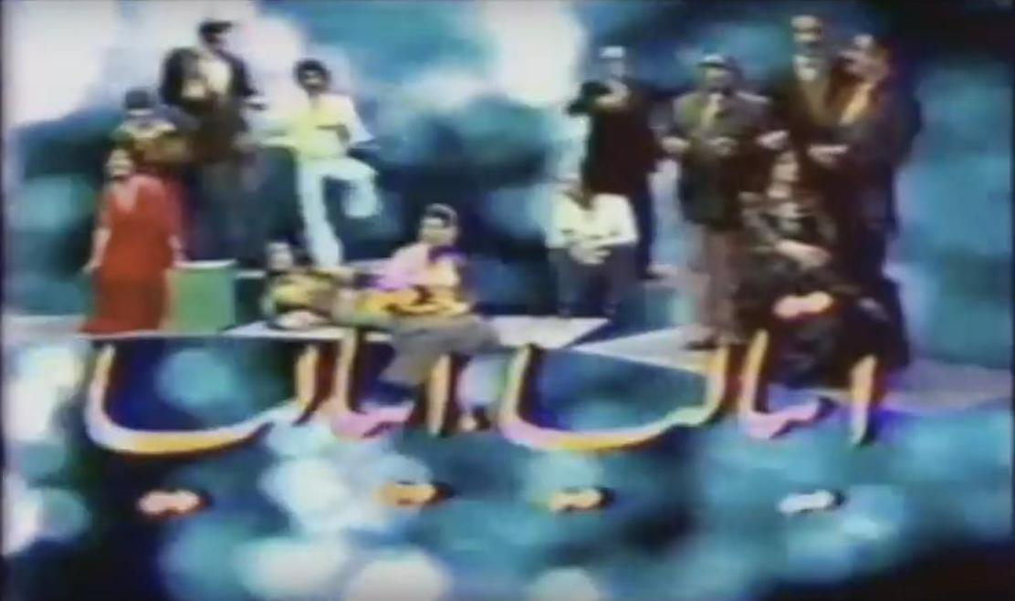 Italia Italia Iranian TV show title screen